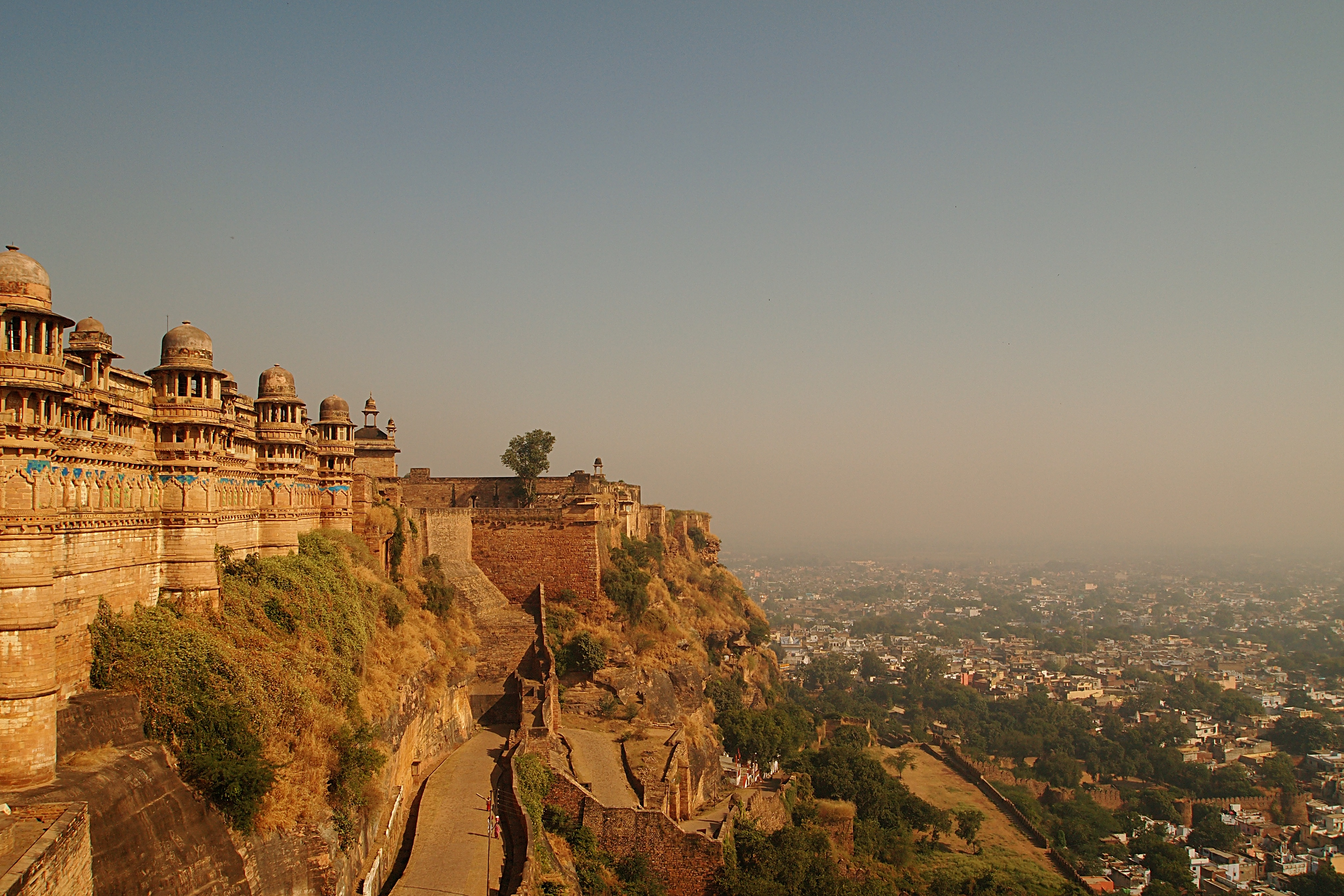 Gwalior Fort (wall and Burj)